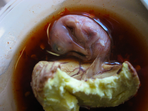 15 Day balut egg boiled for 15 minutes, ready to eat. Floating in a mixture of hot sauce and patis.